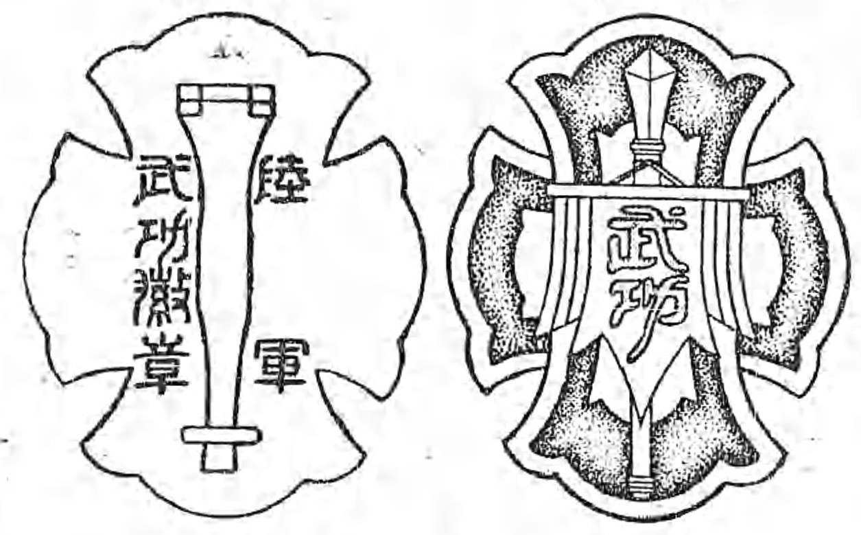 The design of Badge for Military Merit of Imperial Japanese Army established in December 1944.